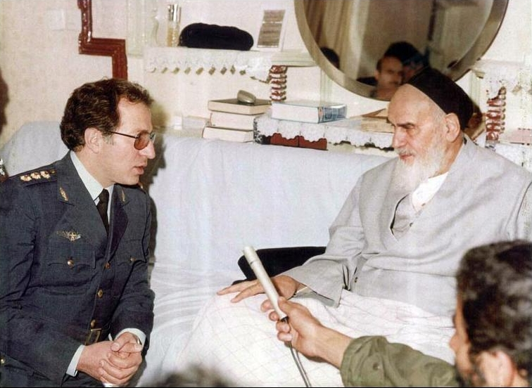 Major Javad Fakori meets Emam Khomeini in Jamaran at Iran-Iraq War